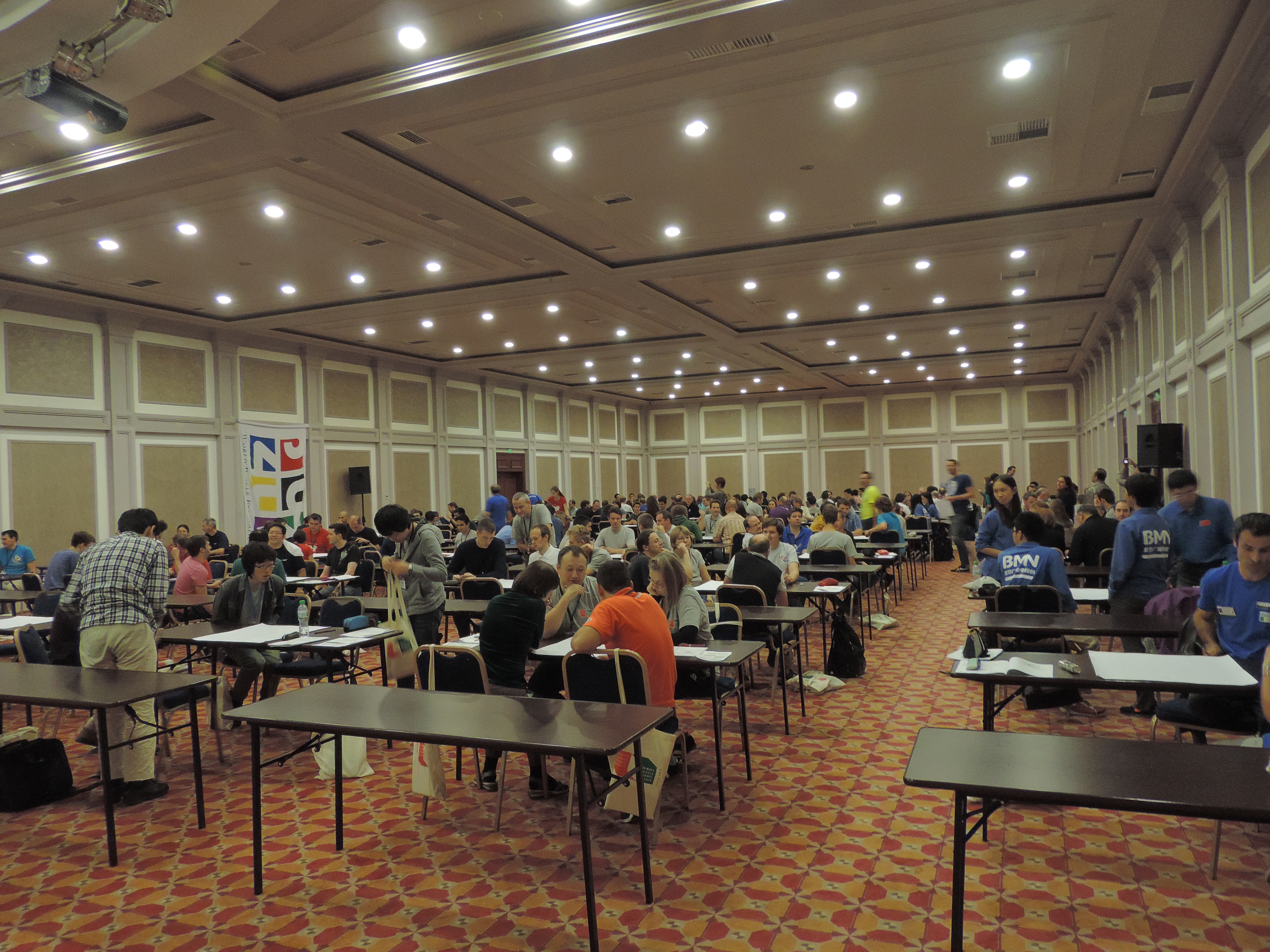 World Sudoku Championship 2015 Sofia, Bulgaria